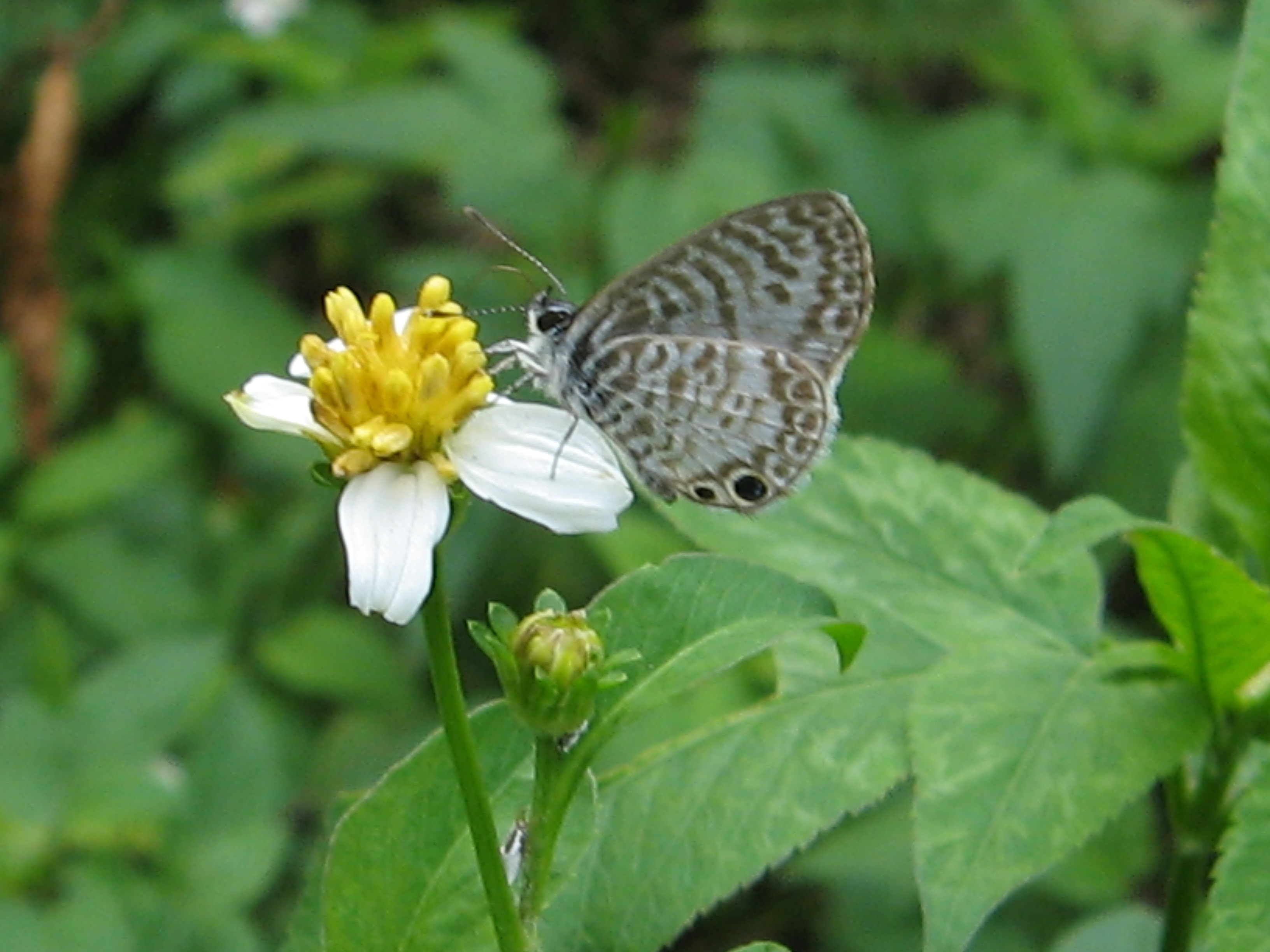 Leptotes cassius. Picture taken at Fern Forest Nature center in Broward county, Florida.